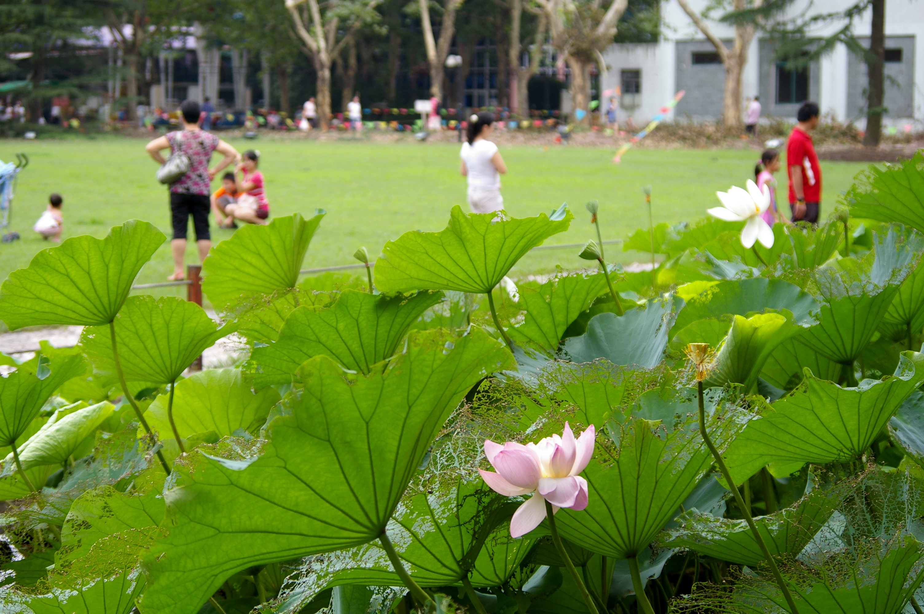 Lotus plants in Zhongshan Park in Shanghai